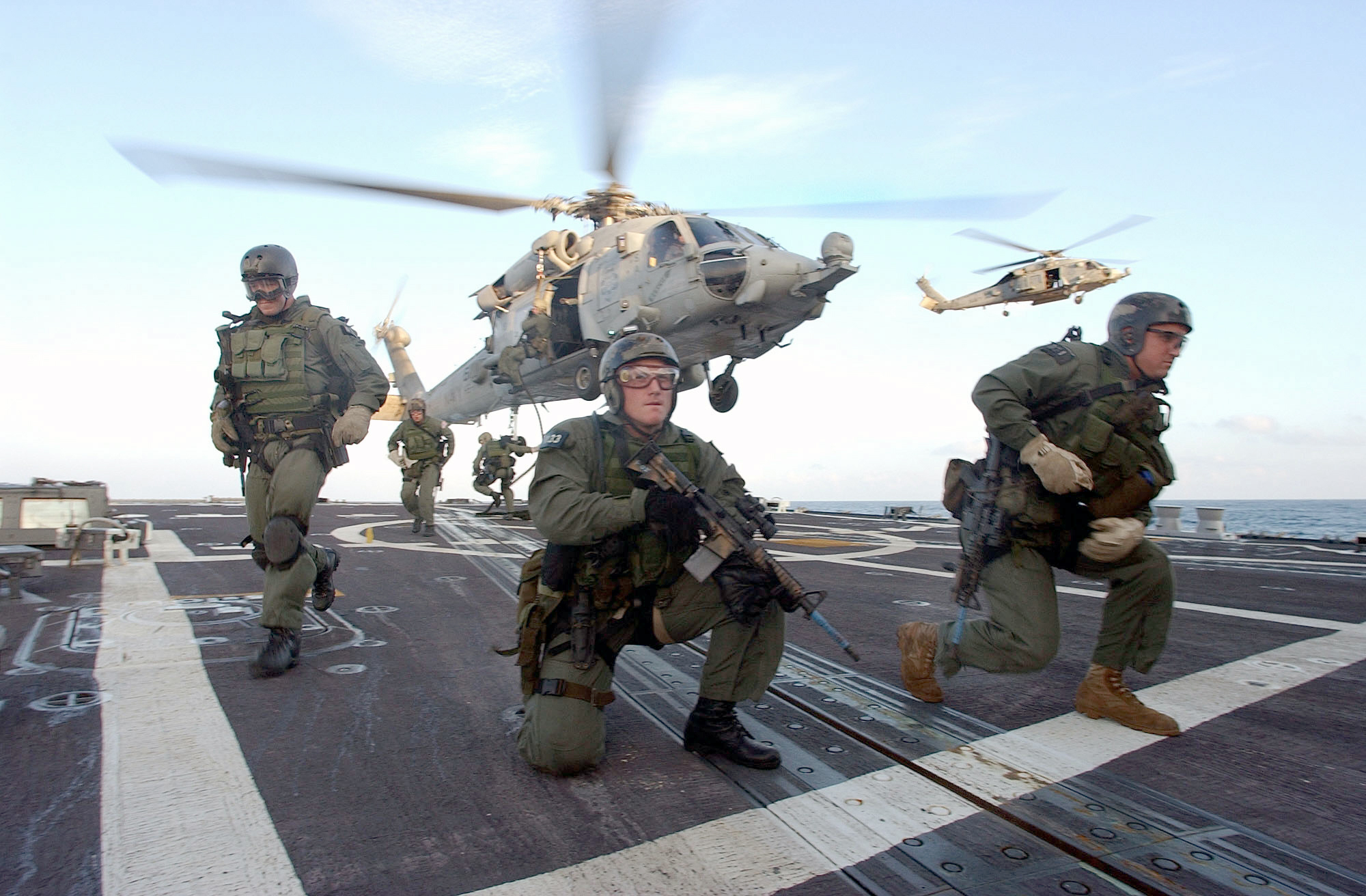 (October 29, 2002) -- Onboard USS Oscar-Austin (DDG-79) underway with Truman Battle Group for Joint Task Force Exercise (JTFEX). U.S. Navy Seals assigned to Team Four, Little Creek, VA., fastrope onto the fantail of USS Oscar-Austin (DDG-79) during JTFEX. (U. S. Navy photo by Photographer's Mate 1st Class (AW) Michael W. Pendergrass) (RELEASED)